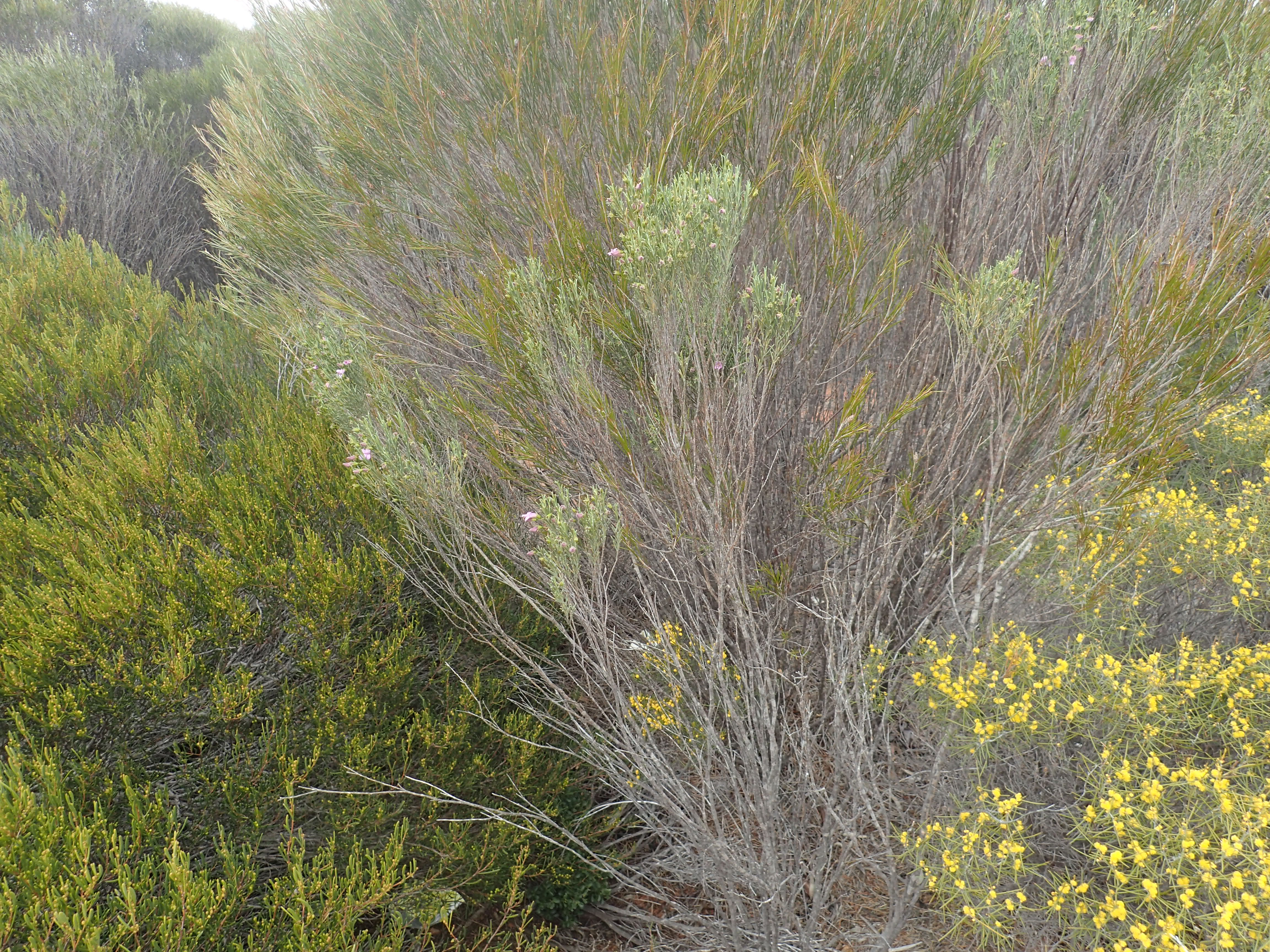 Eremophila labrosa growing 42km south of Norseman